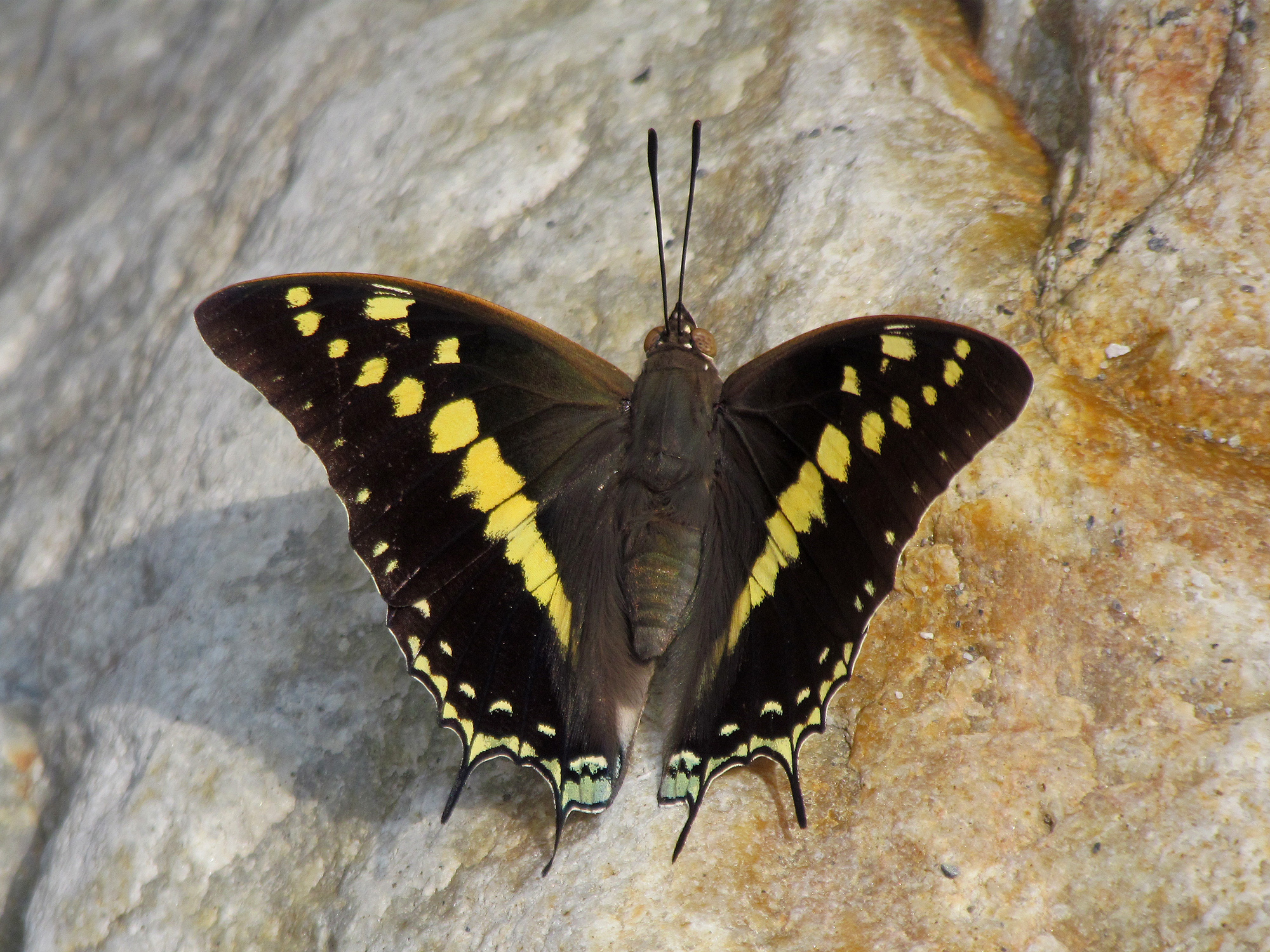 Open wing of Charaxes solon Fabricius, 1793 – Black Rajah